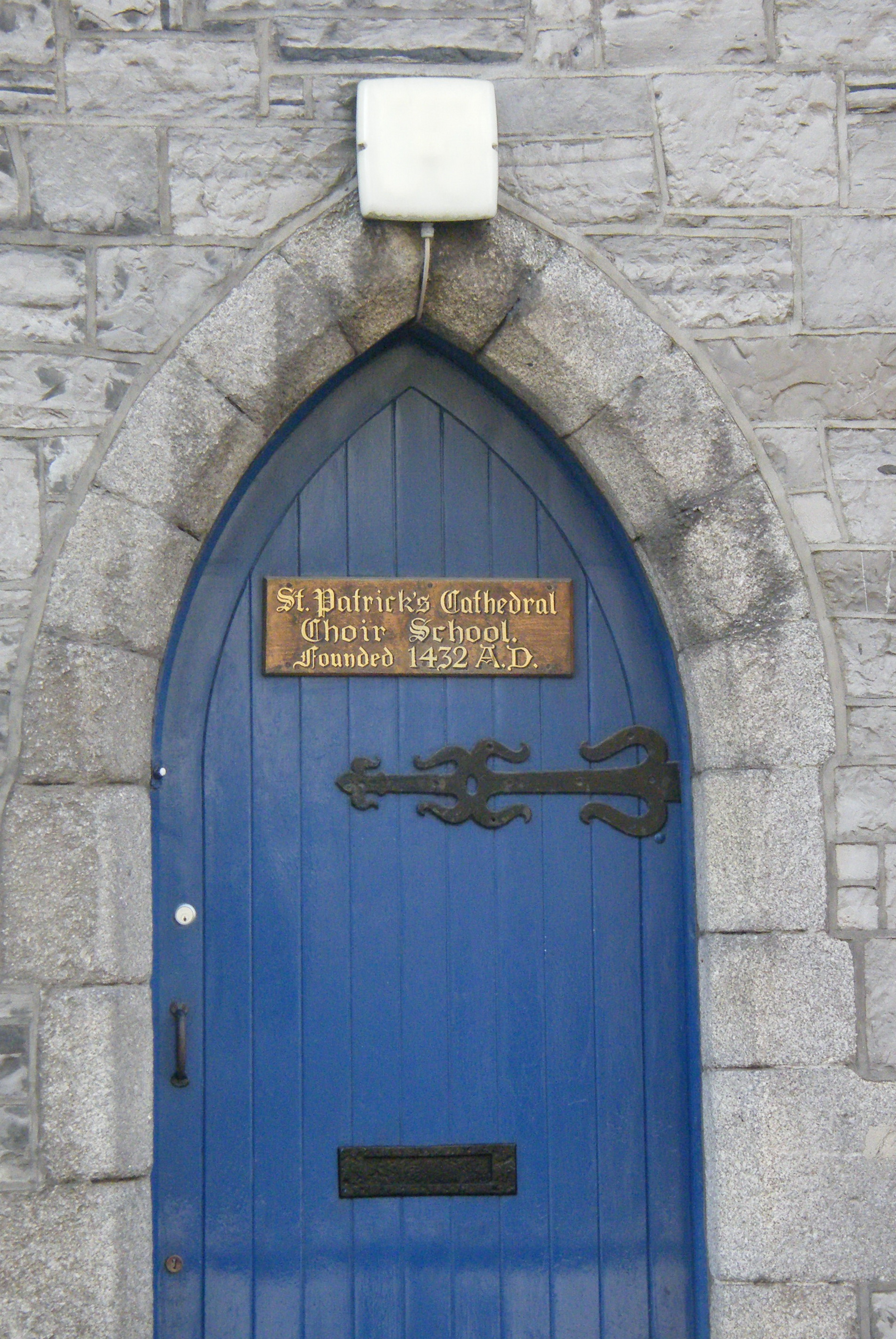 St Patrick's Cathedral Choir School front door